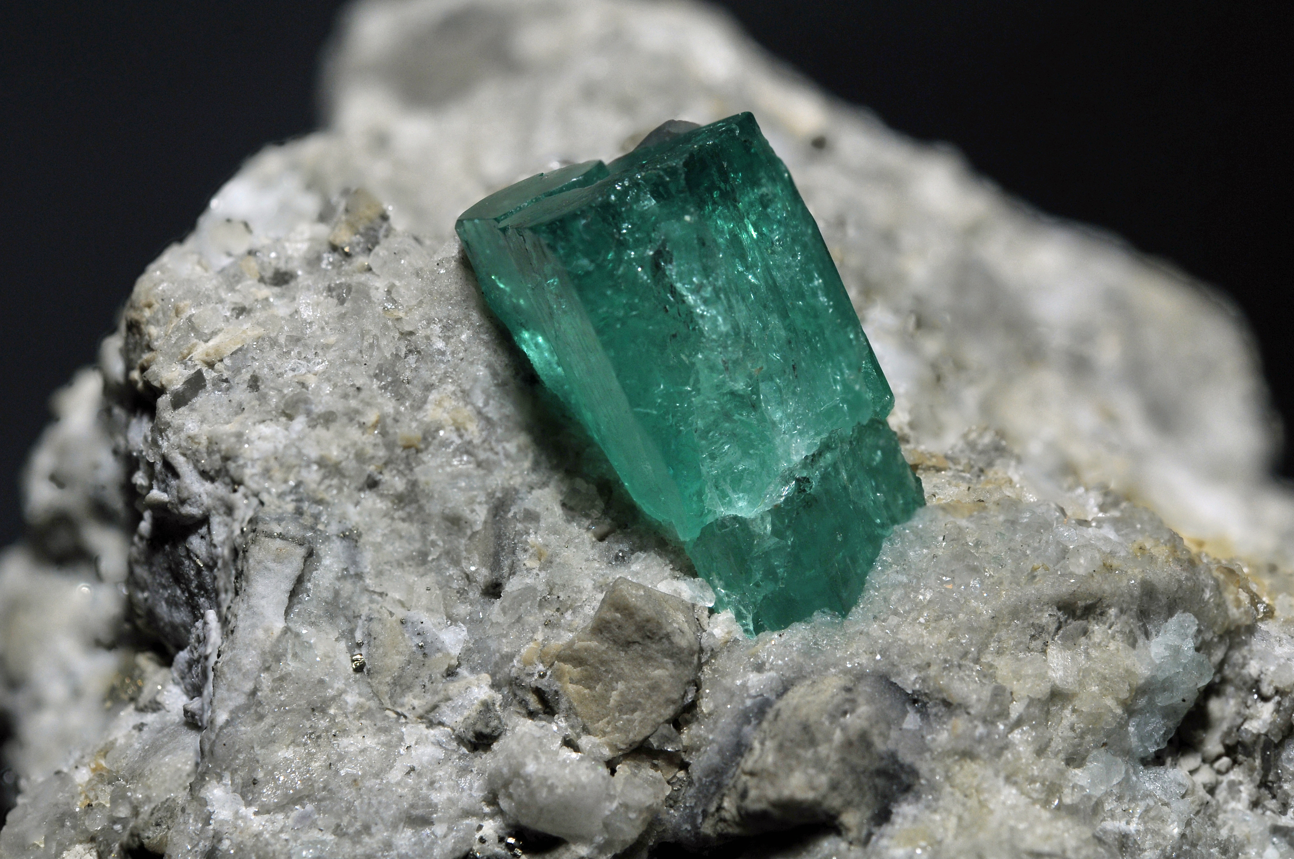 beryl var. emerald, parisite-(Ce), calcite : Muzo Mine, Mun. de Muzo, Vasquez-Yacopí Mining District, Boyacá Department, Colombia - crystal : 16 mm